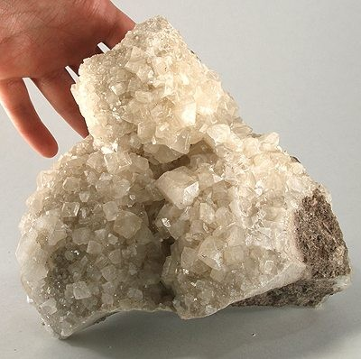 Colemanite Locality: Boron, Kramer District, Kern County, California, USA (Locality at ) Size: 19.4 x 16.2 x 15.1 cm. A huge specimen of crystals of colemanite, to 3 cm, piled thickly on a rolling matrix that gives the specimen nice overall aesthetics. The crystals are translucent and have good luster. Ex. Jim Minette Collection.